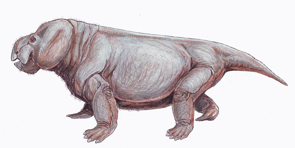 Life reconstruction of Stahleckeria potens VON HUENE 1935, a kannemeyeriiform dicynodont from the Middle Triassic of Brazil.